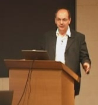 Picture of François Fages, talk given at Collège de France, 23 May 2008